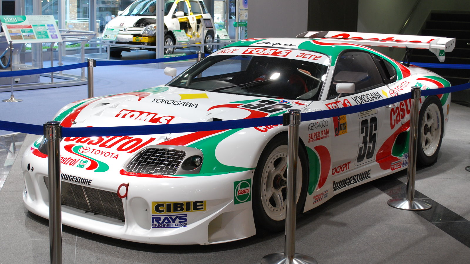 Castrol_Tom's_Supra (1997) photorgaphed at AMLUX